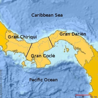 Archaeological map of Panama - the localisation of cultural regions Greater Chiriquí, Greater Coclé and Greater Darién